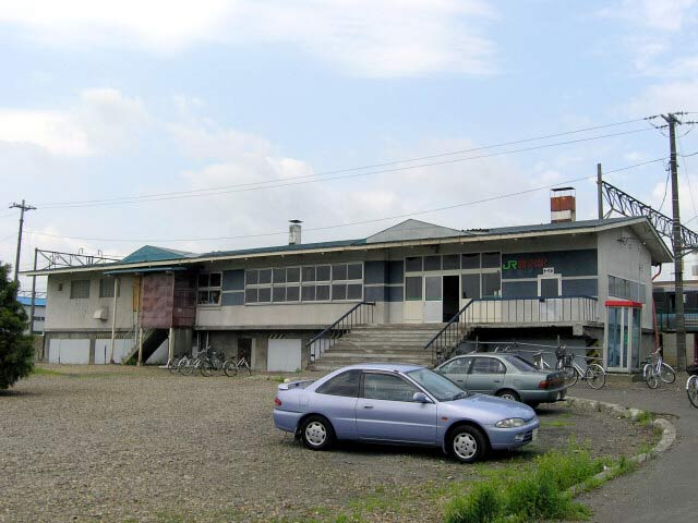 Toyonuma Station in Hakodate Main Line, Japan